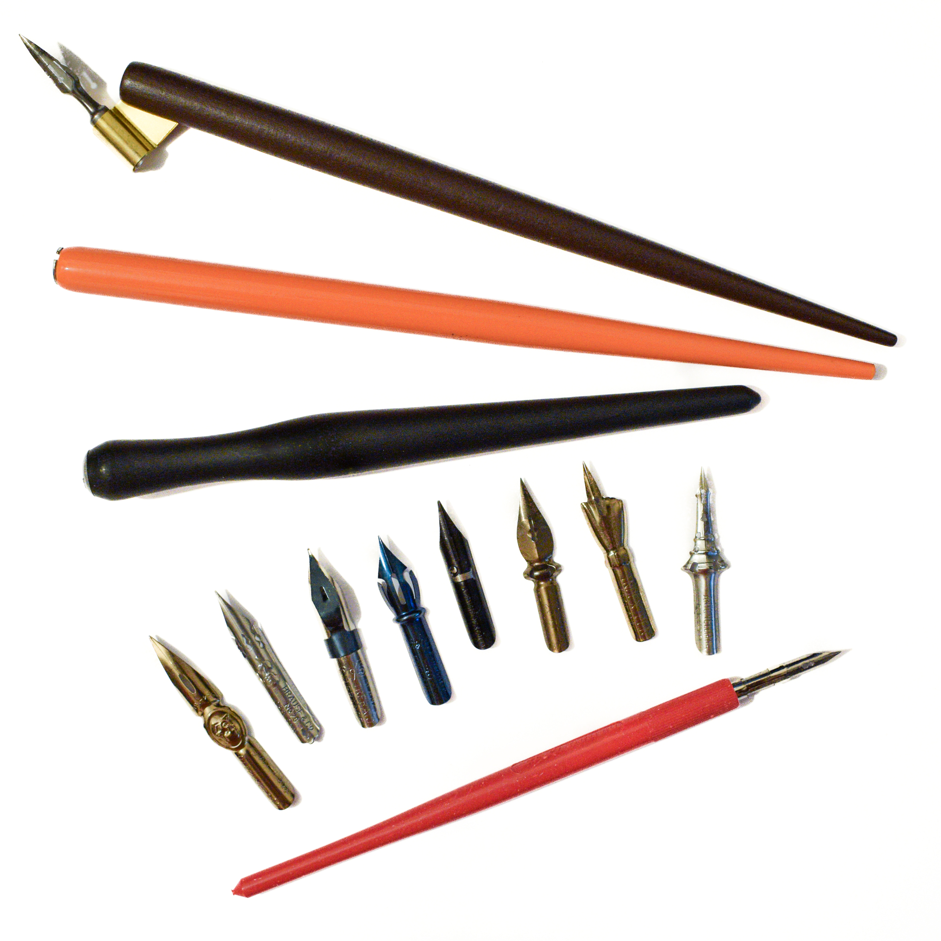 Some dip pen nibs and penholders, two of them with a nib fitted. The pens, from top to bottom and from left to right are: Gallia (Compagnie Française) unmarked flat spear pen Leonardt Shakespeare Brause № 76 rosenfeder Blanzy-Conté-Gilbert Tréraid 0,75 Leonardt № 40 steno A. Armstrong & Cº J M Sveriges Pennfabrik 20 EF Leonardt Index Pen Unknown Penna Anonelliana Conté 1423 Atome